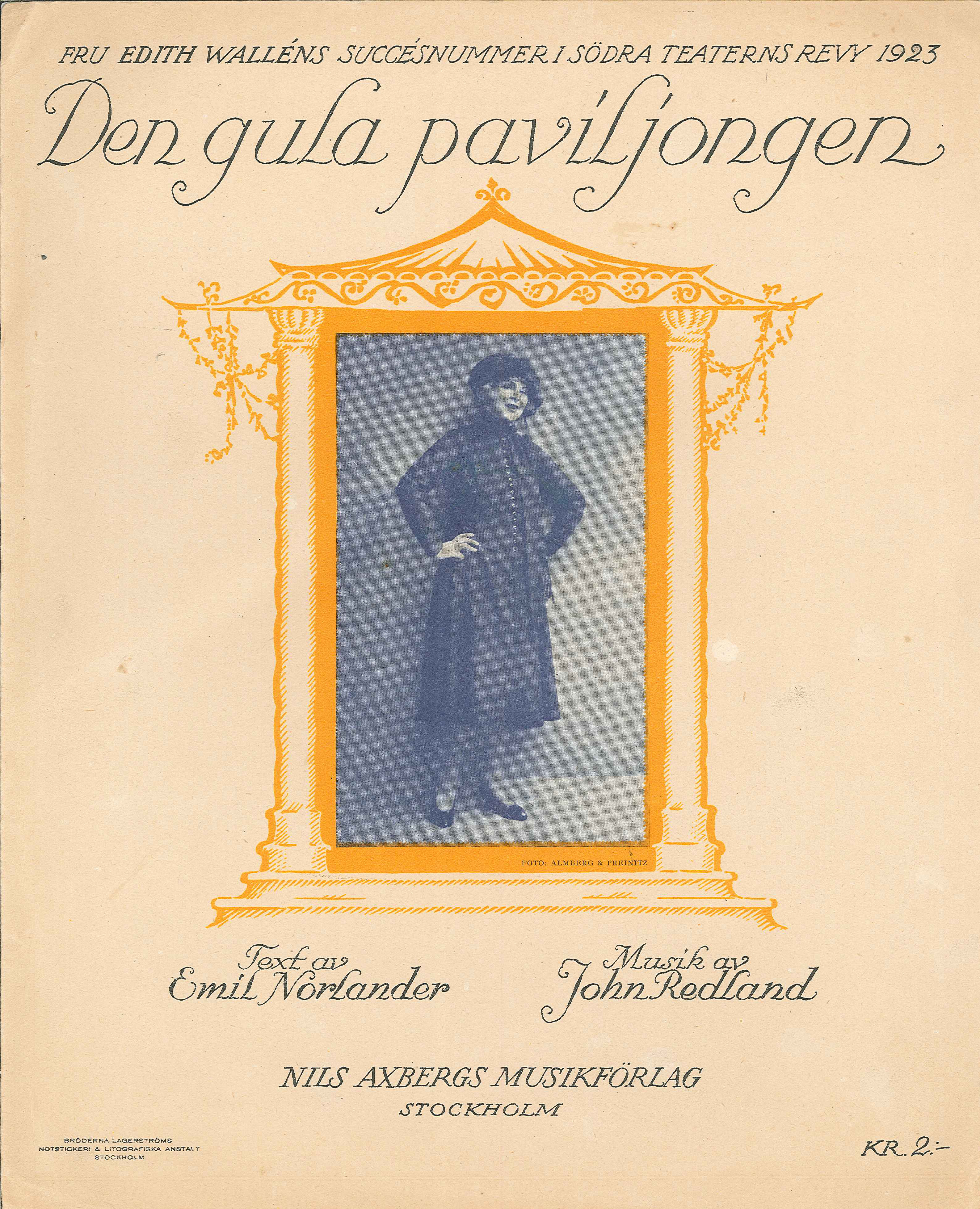 Sheet music cover for Emil Norlander's and svJohn Redland's 1923 revue hit Den gula paviljongen (= the Yellow Pavillion) featuring Edith Wallén who introduced the song.